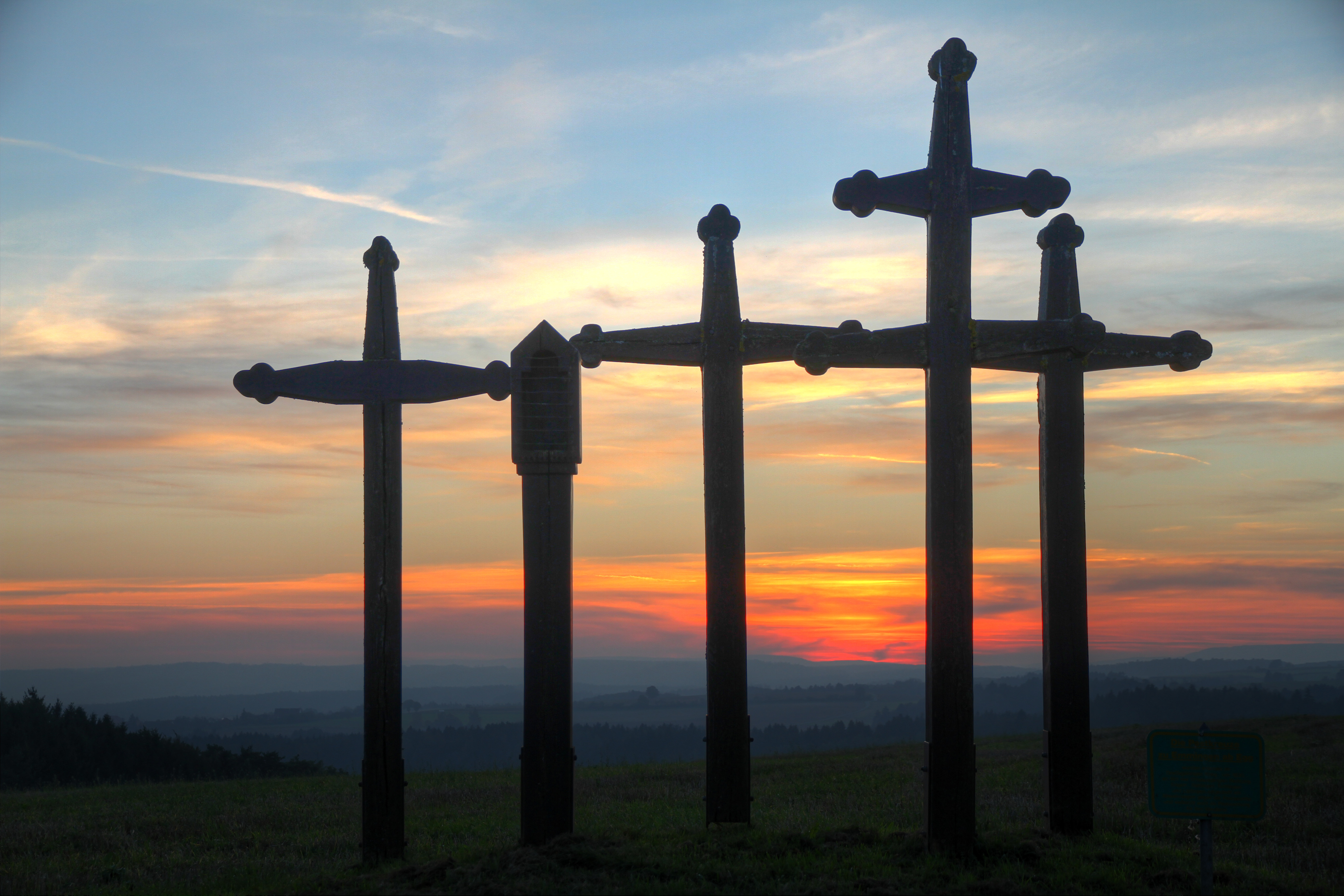 Feld- und Pestkreuze (Emmingen)